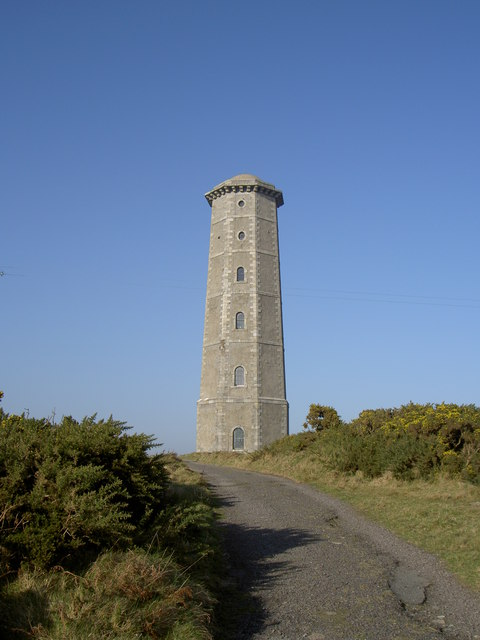 The Rear Lighthouse, Wicklow Head One of 2 lighthouses that were built in 1781 on Wicklow Head. This lighthouse, built higher up and further inland, is now owned by the Irish Landmark Trust and can now be rented out.